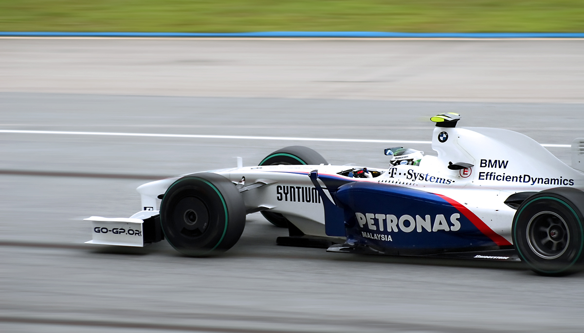 Nick Heidfeld at 2009 Malaysian Grand Prix, Sepang, Malaysia.